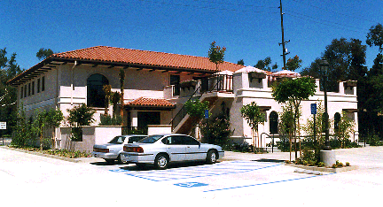 South side exterior of Disciples Seminary Foundation's Claremont Office